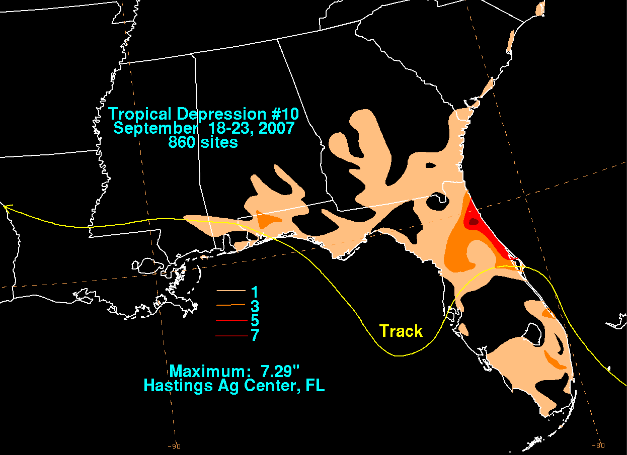 Storm total rainfall map of Tropical Depression Ten during September 2007.